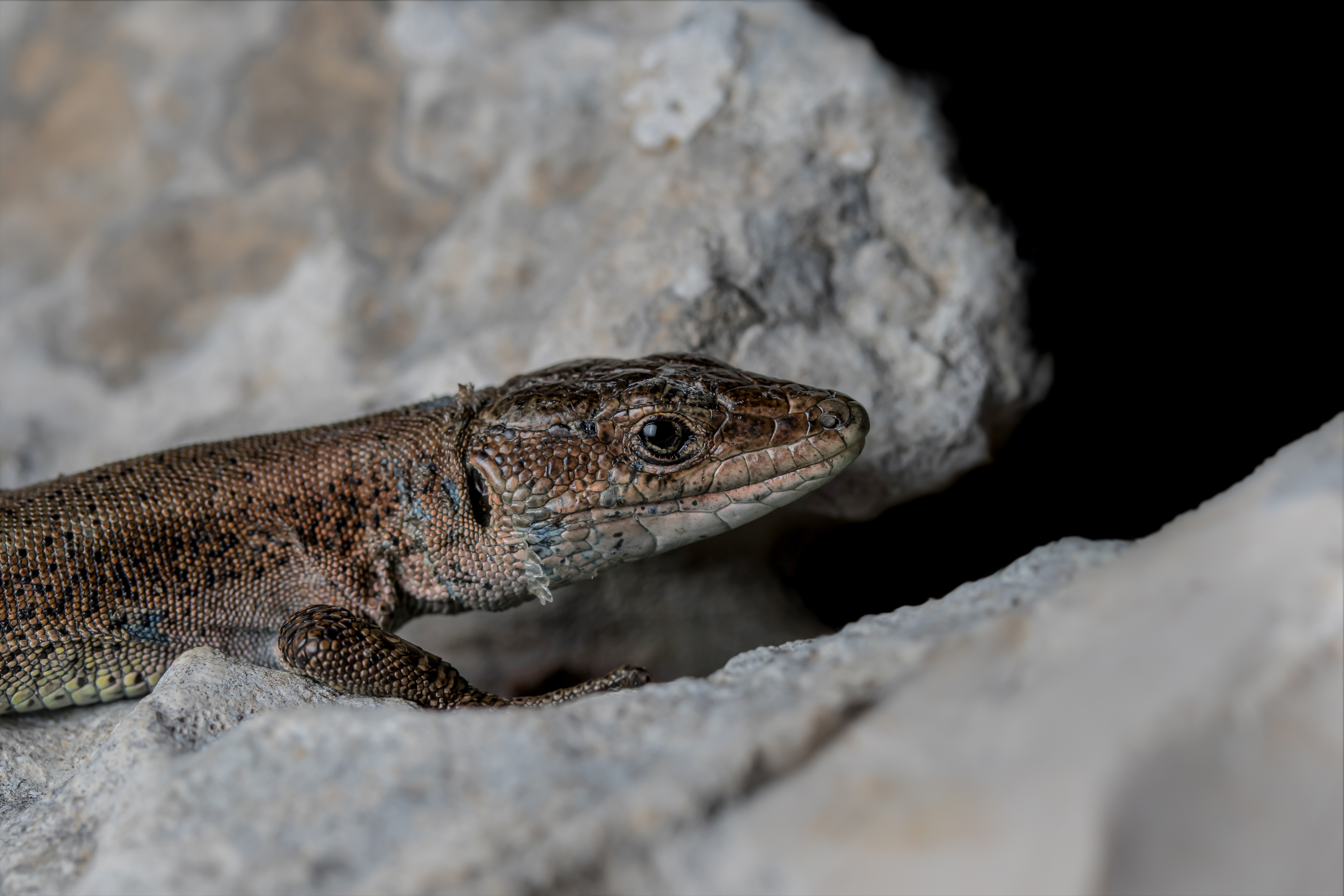 Konstantinos Kalaentzis Anatololacerta budaki (A1)